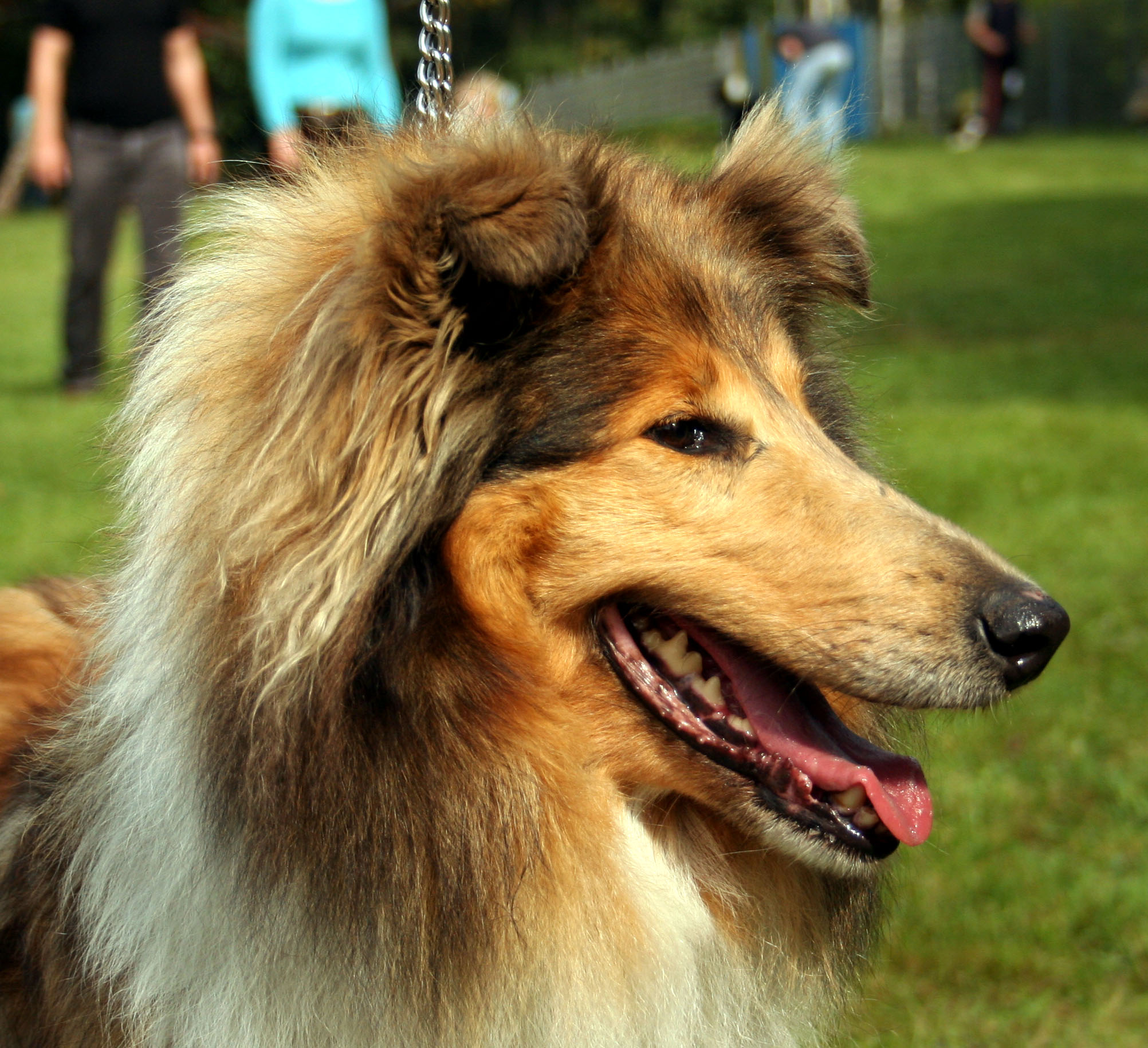 Rough Collie,veteran class JESSI GOLD Actis, national dog show in Rybnik - Kamień